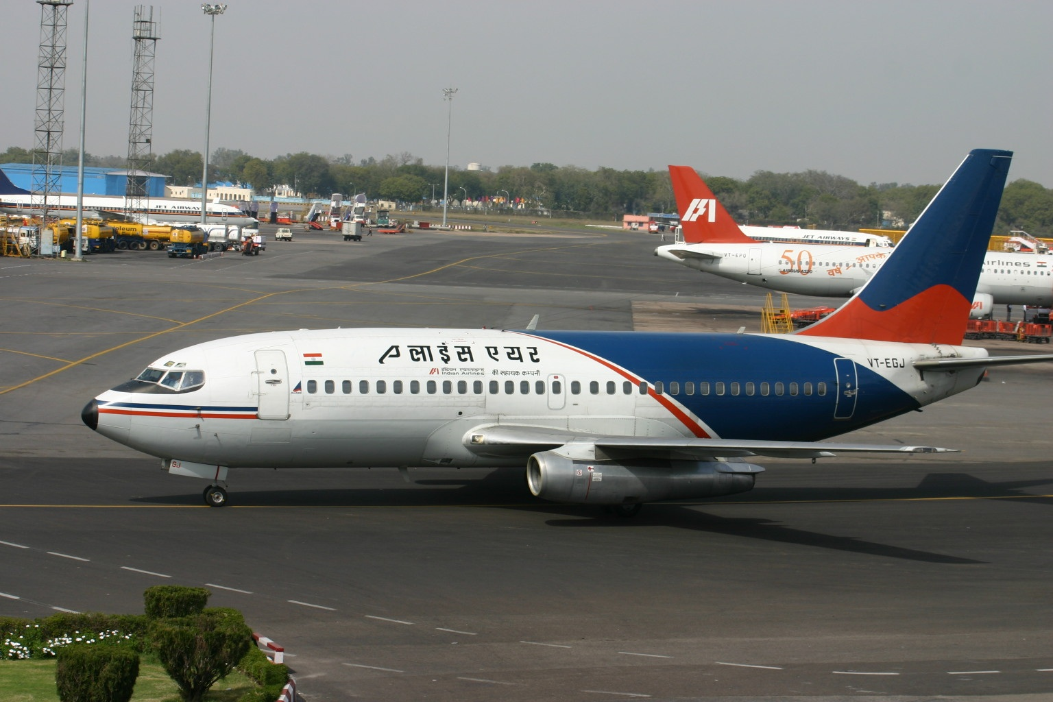 At Delhi Indira Gandhi International Airport